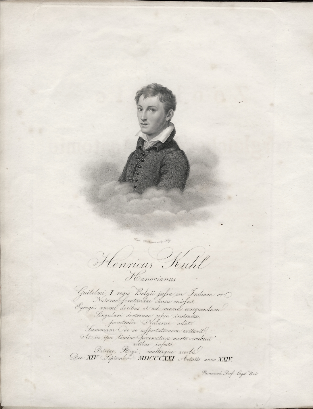 Portrait of Heinrich Kuhl (1797-1821), drawing from Friedrich Fleischmann (1791-1834) with the inscription of the grave table by Kaspar Georg Karl Reinwardt